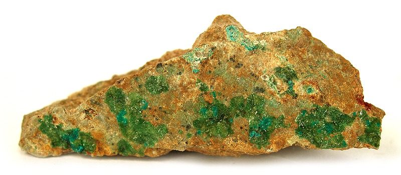 Ludjibaite Locality: Ludjiba Mts, Shinkolobwe, Central area, Katanga Copper Crescent, Katanga (Shaba), Democratic Republic of Congo (Zaïre) (Locality at ) Size: miniature, 3.6 x 1.6 x 1.2 cm Ludjibaite Ludjibaite is a rare copper phosphate, that is NOT radioactive but occurs rarely in this suite of species here. This specimen, though small, could be considered fairly rich in the material with bright microcrystalline growth over its surface. The more blue-green crystals are the ludjibaite. This is rare type-locality material.